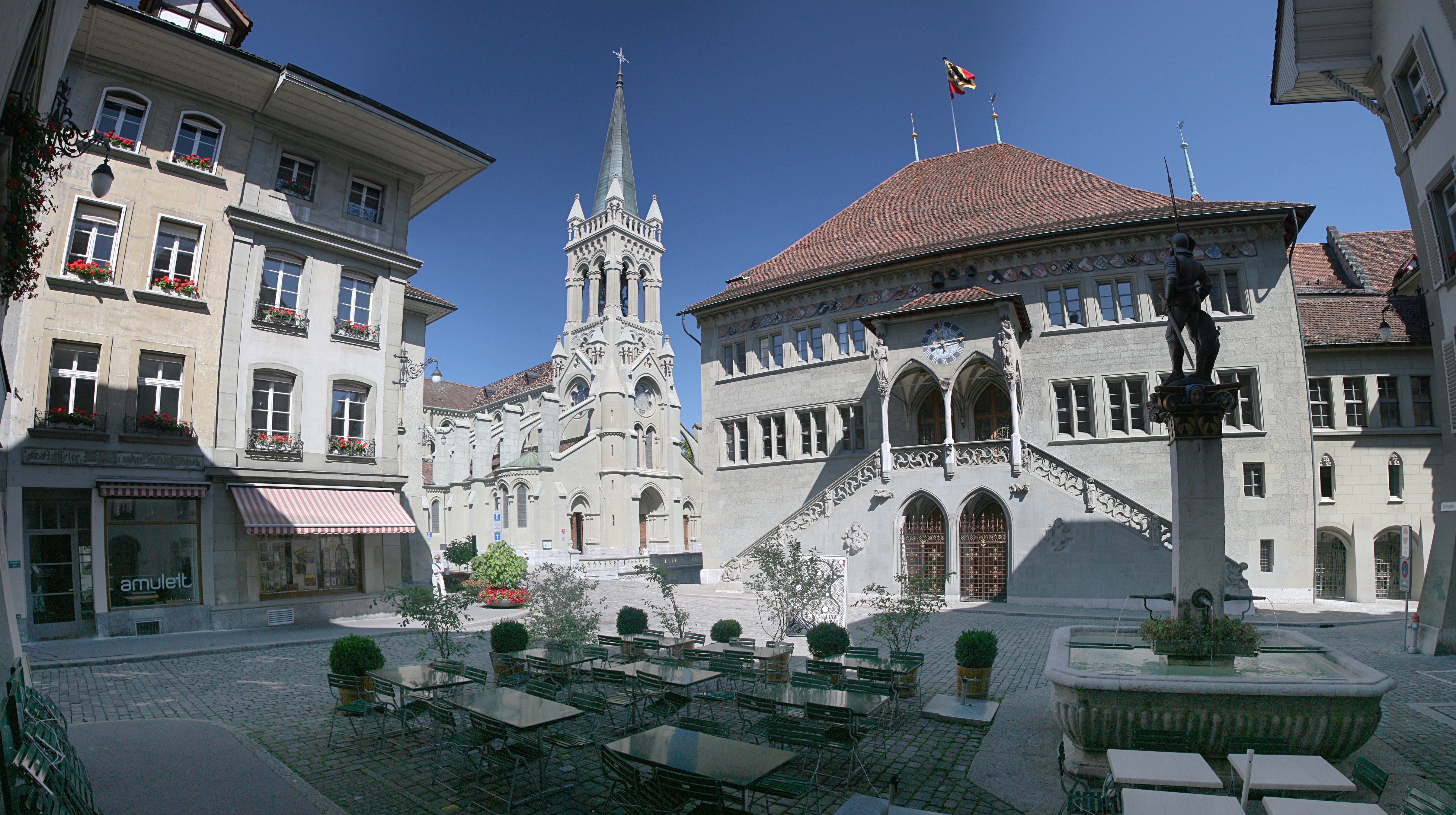 Town hall of the federal city of Berne, Switzerland. This image was created with Hugin.